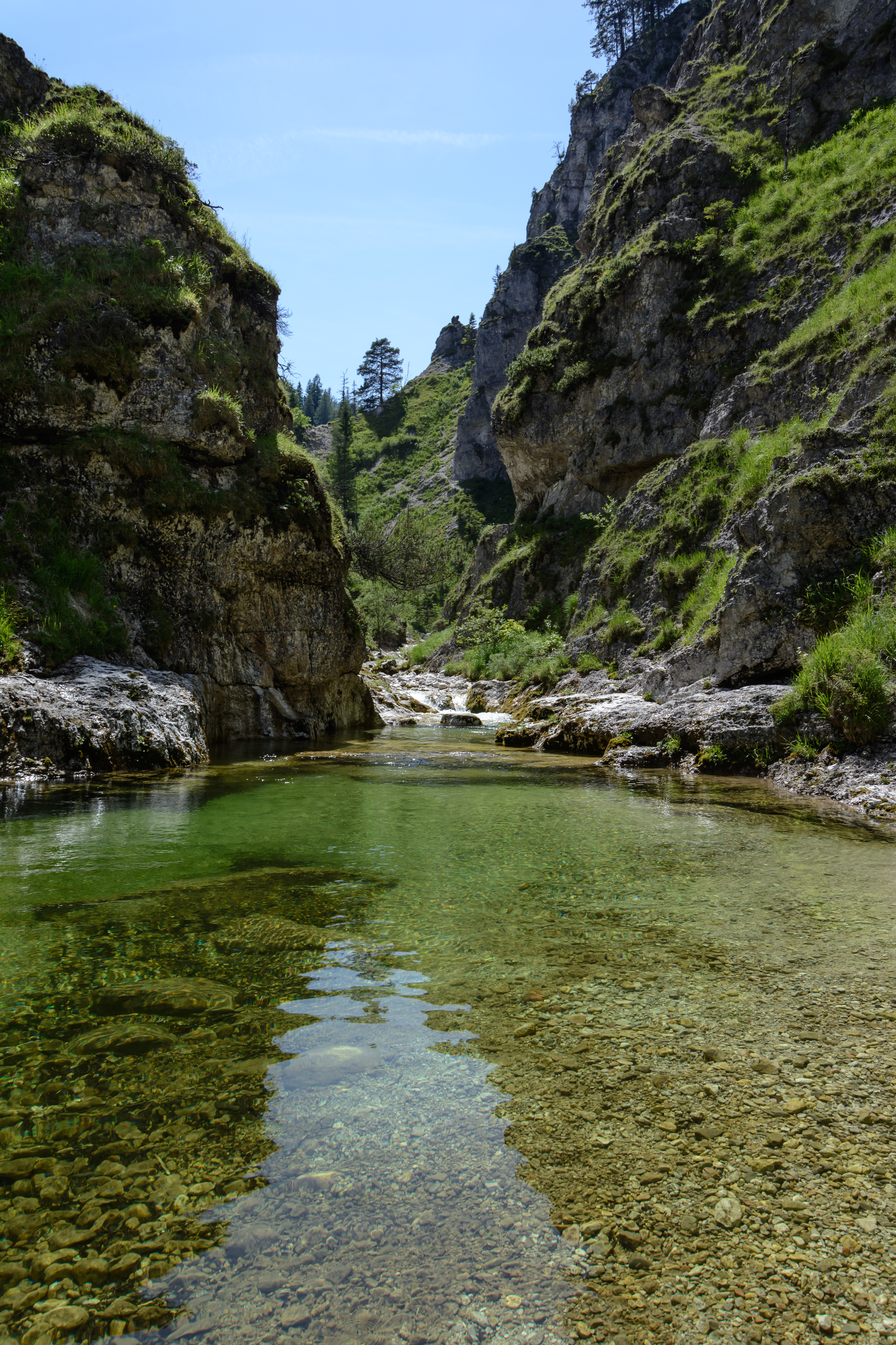 The Ötscherbach in the Ötscher Canyon, nature park Ötscher-Tormäuer, Lower Austria